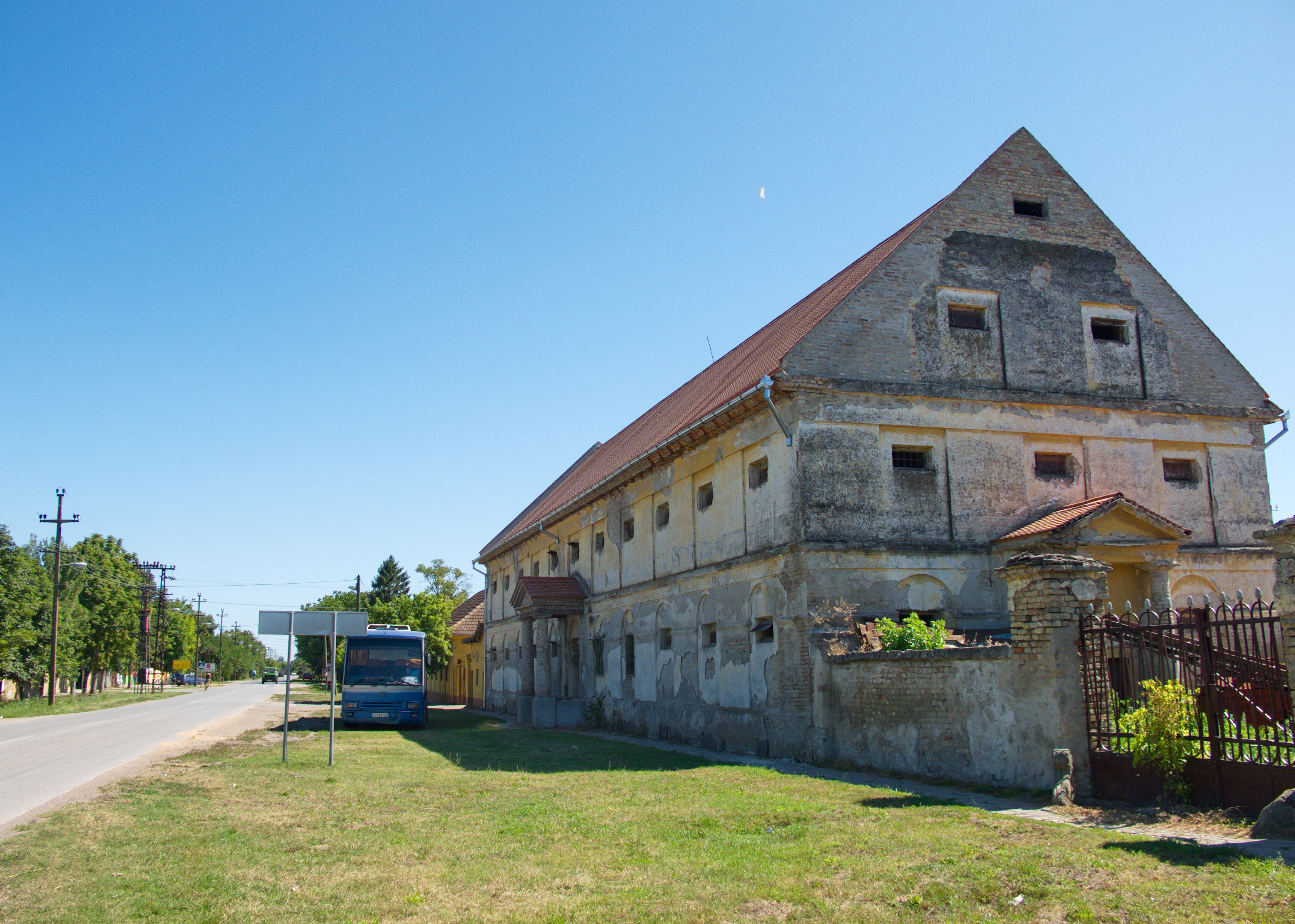 Žitni magacin i kotarka, Beodra, Novo Miloševo. Danas je to etnografski muzej "Kotarka"